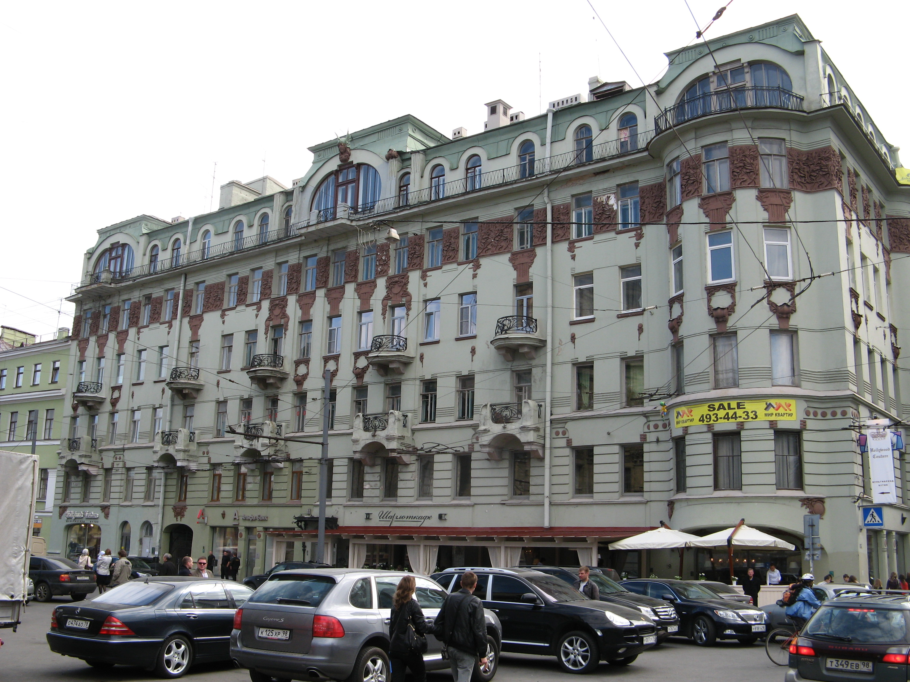 Kazanskaj street, 2 (Saint-Petersburg)